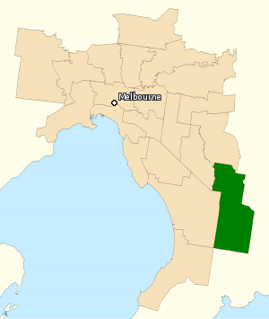 This image incorporates data that is: © Commonwealth of Australia (Australian Electoral Commission) 2009 Division of Holt 2010